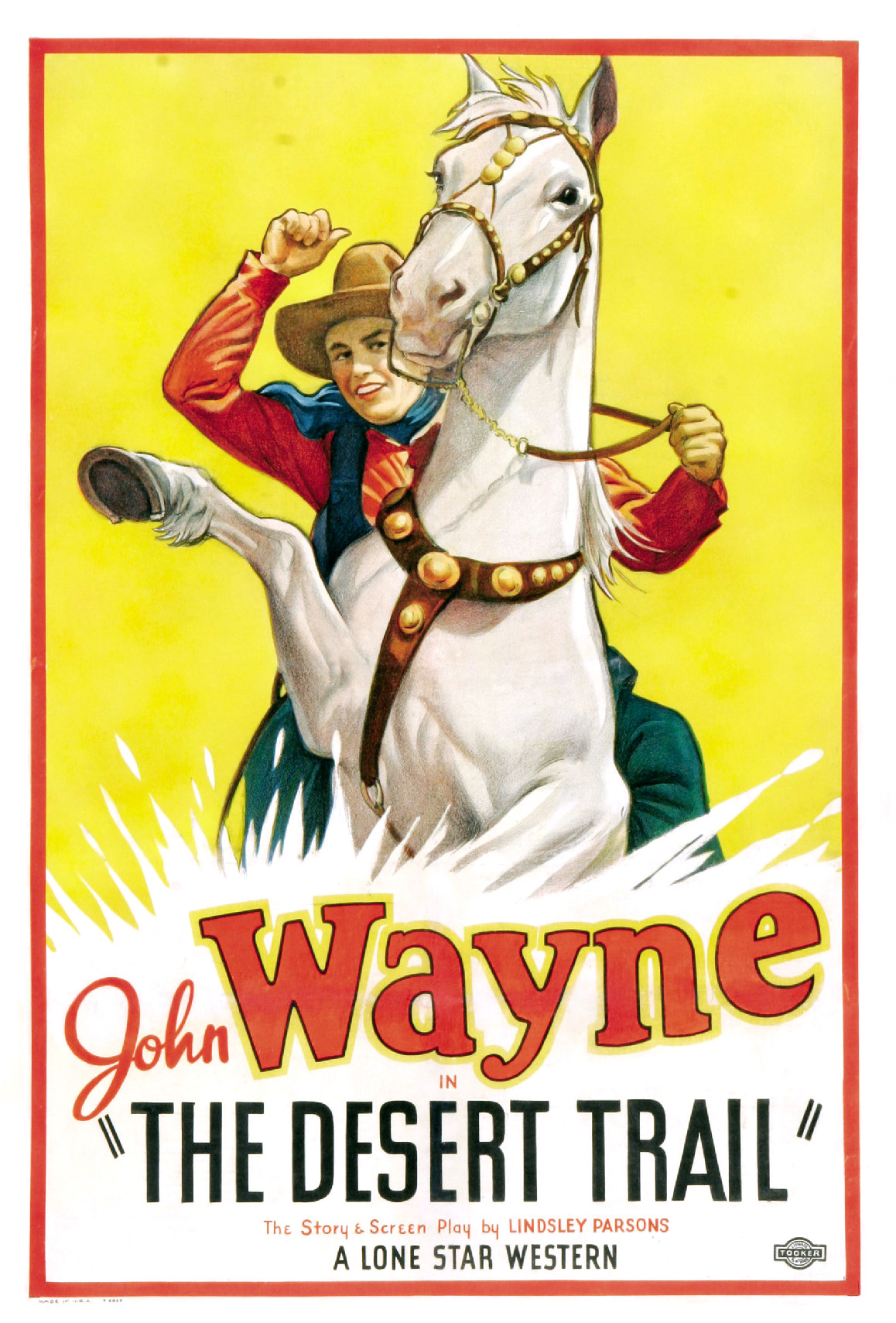 Poster for the 1935 film The Desert Trail. There are no copyright marks. At bottom left is Made in USA #5959. At bottom left is the Tooker Litho Co. logo-they printed the poster.